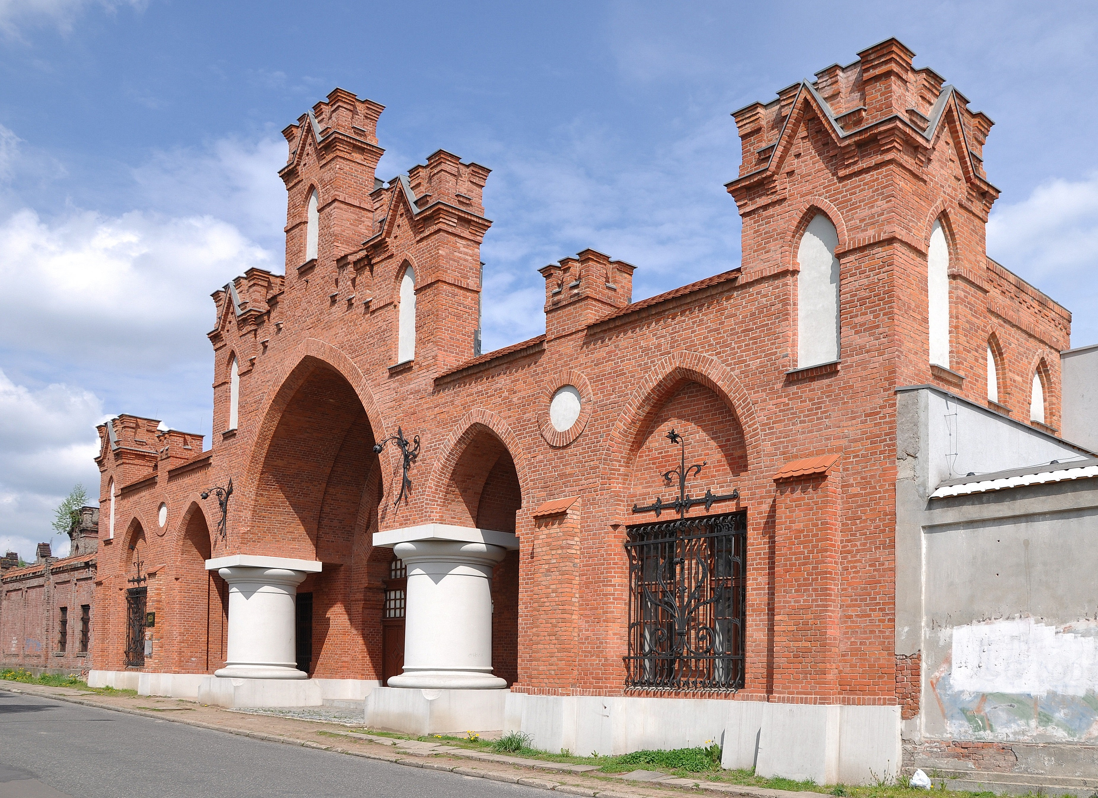 Grohmann's Factory Gate in Łódź